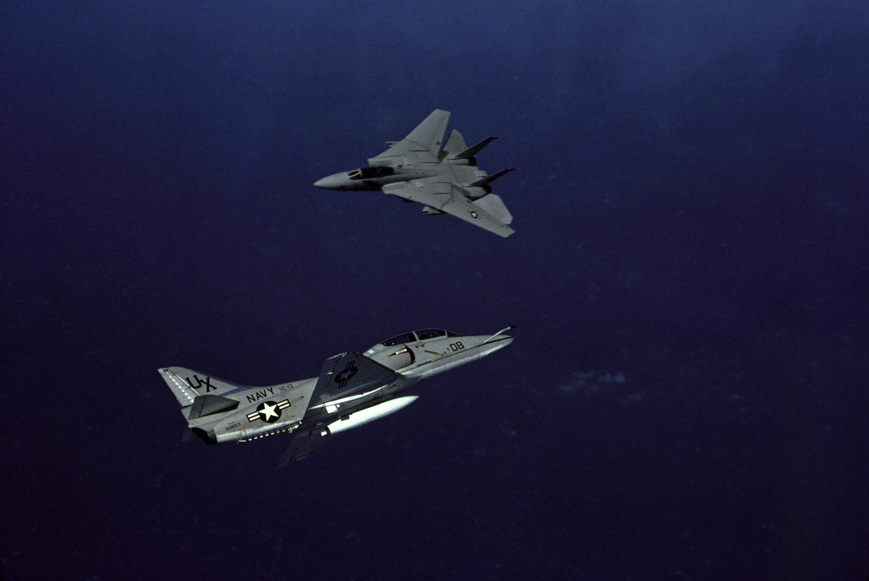 A U.S. Navy TA-4F Skyhawk aircraft, bottom, and an F-14 Tomcat aircraft, both assigned to Fleet Composite Squadron (VC) 13, fly together over the Pacific Ocean, near Southern California, in November of 1987. (U.S. Navy photo/Released)